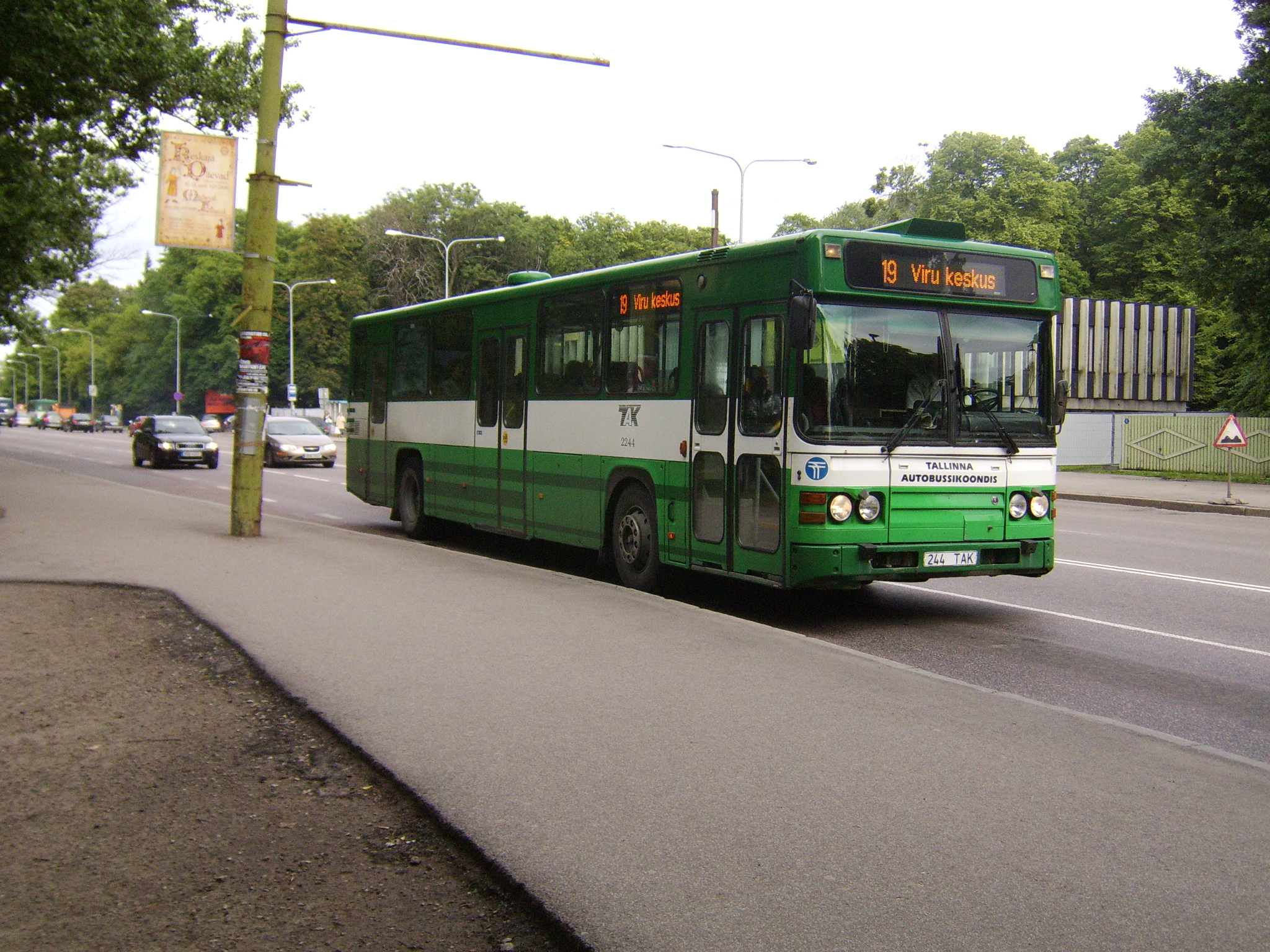 A Scania CN113CLB type city bus in Tallinn, Narva maantee. Year built 1992.